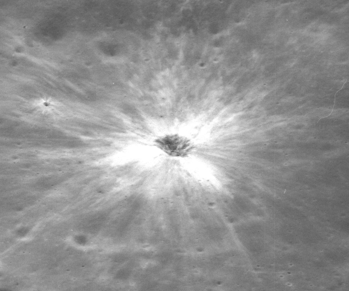 Oblique view of South Ray crater (center), south of the Apollo 16 landing site, Descartes Highlands, on the moon. This is cropped from a Hasselblad camera closeup image of the site taken from lunar orbit during Apollo 14. The small bright crater at left is called Baby Ray crater.